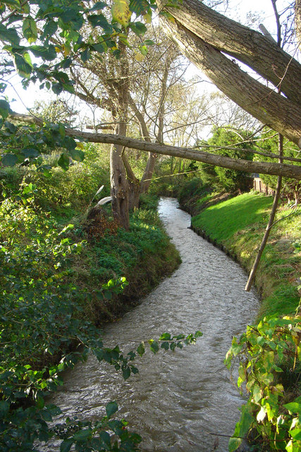 The River Rase Photo taken looking upstream from Church Street, Middle Rasen.